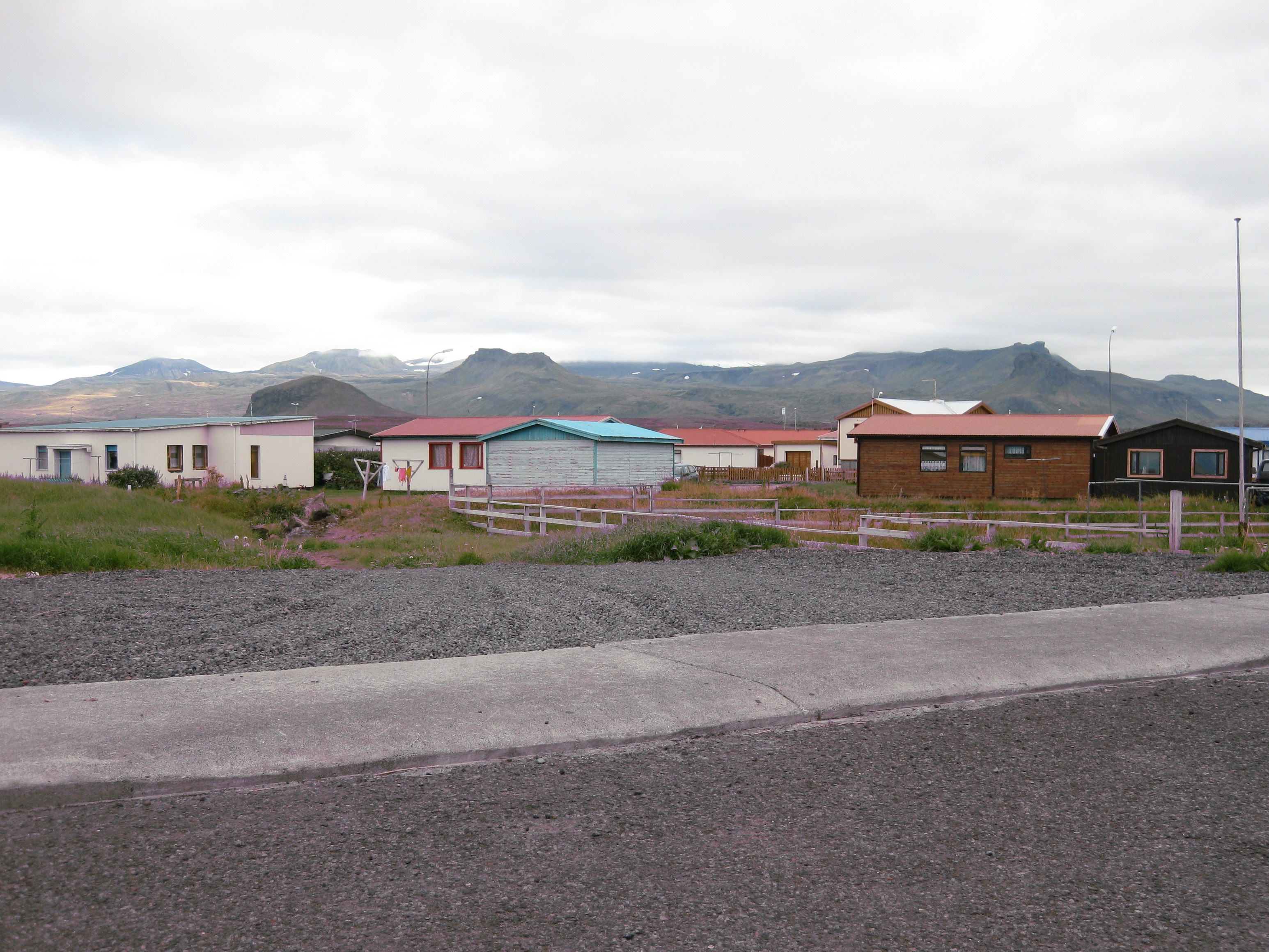 Steet in in Hellissandur in Snæfellsnes , Iceland. Photo by Salvor Gissurardottir in August 2008